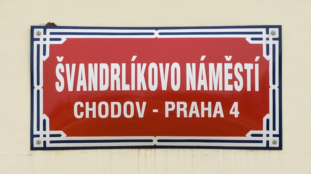 Square in Chodov (Prague) was named after Czech writer Miloslav Švandrlík in April 2010